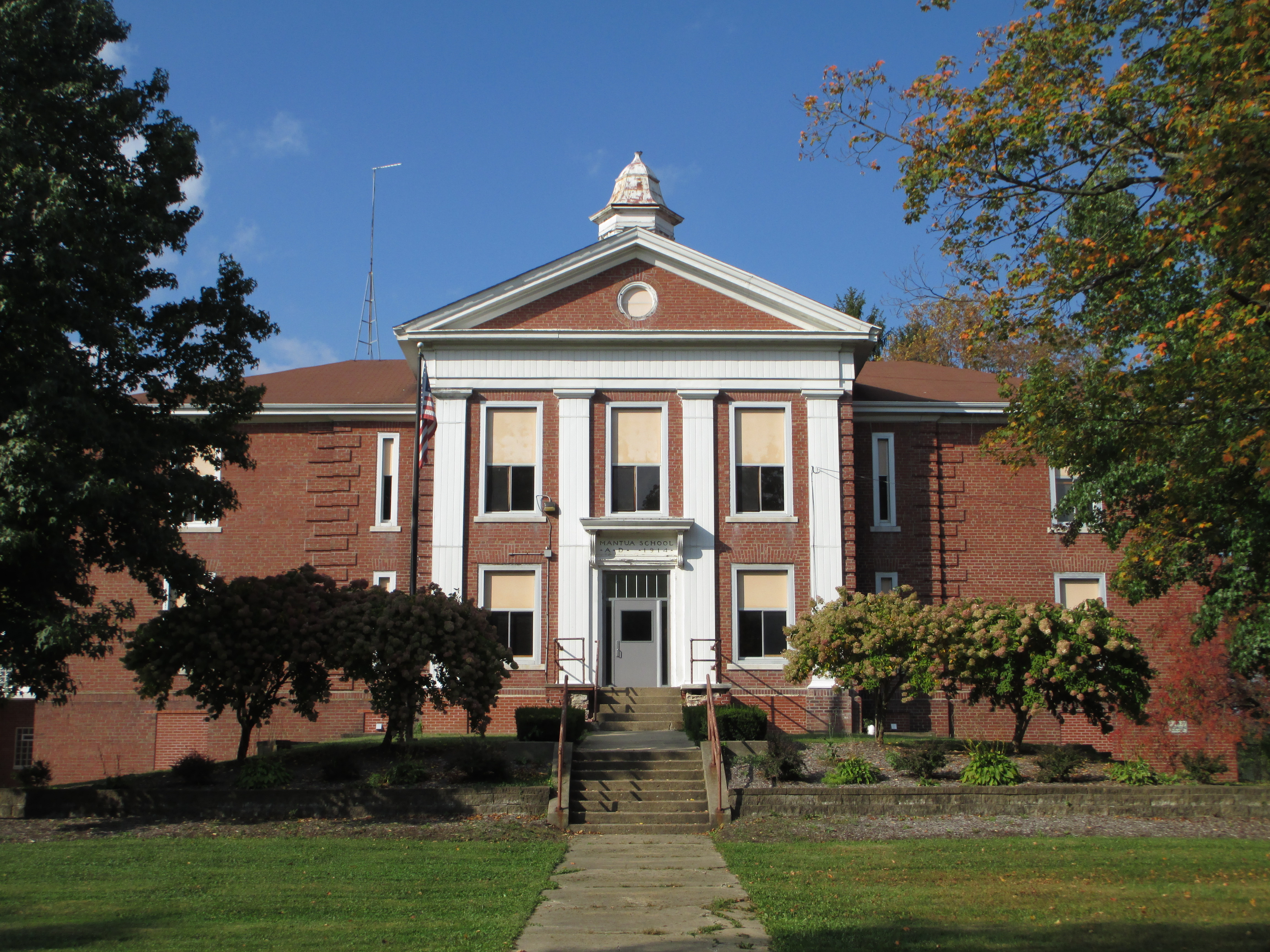 South (front) facade of the Mantua Center School in Mantua Township, Ohio, United States.